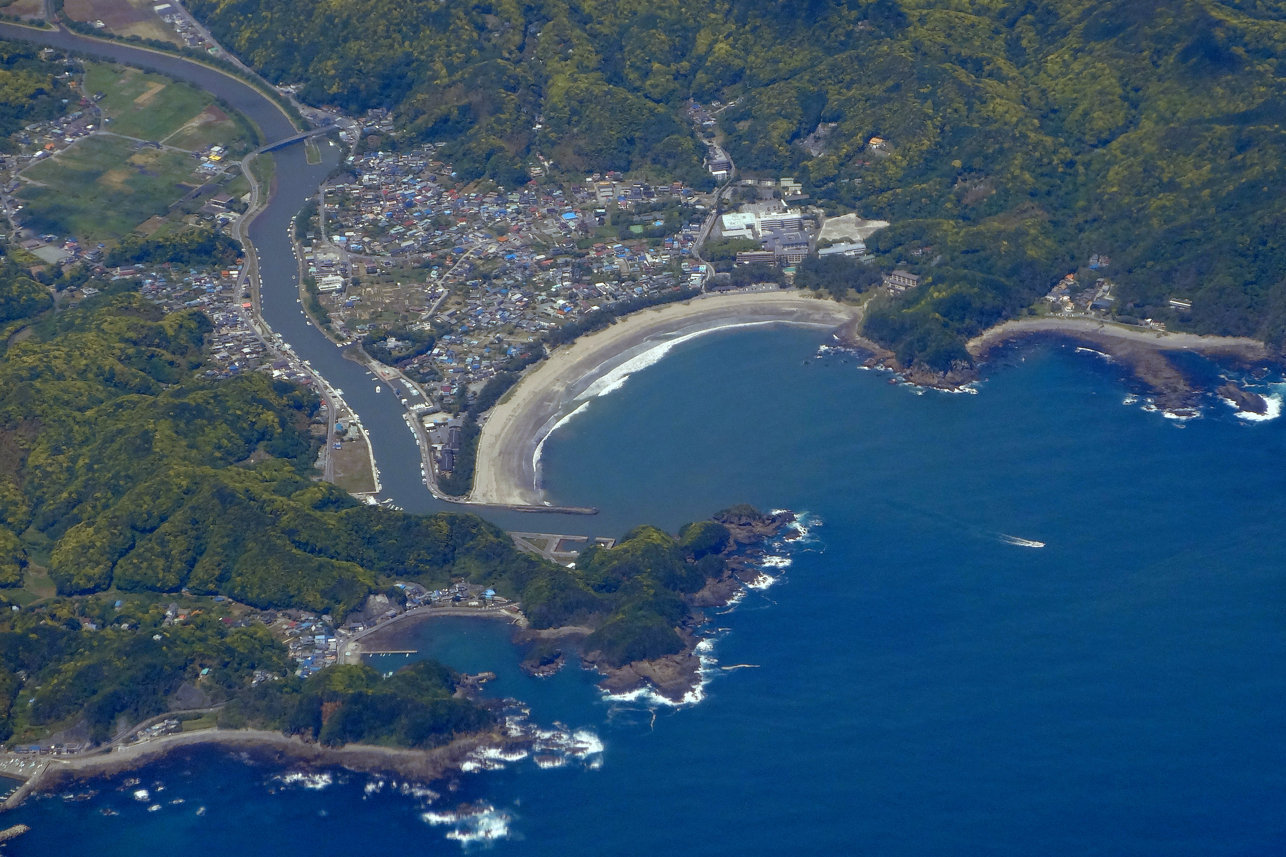 Yumigahama from the sky in Minamiizu, Shizuoka prefecture, Japan.